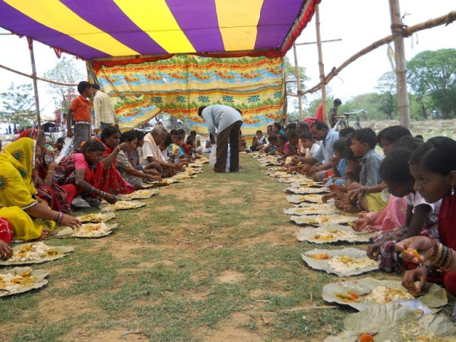 ಹಸಿವು